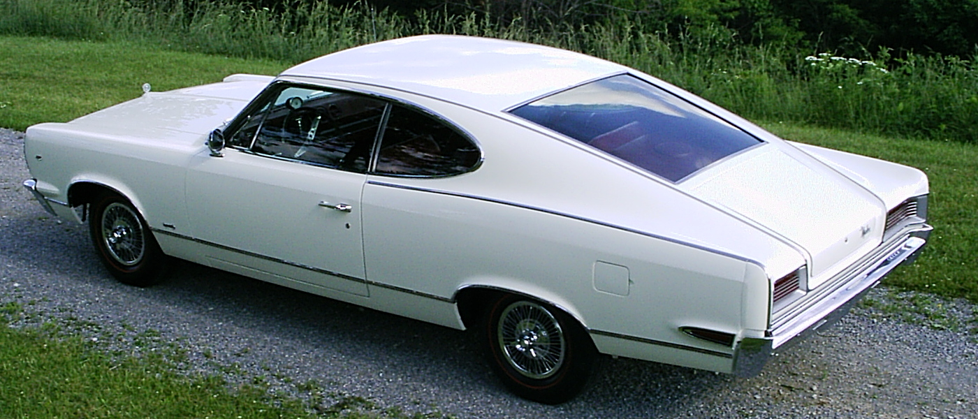 Cropped version of "1967 AMC Marlin white with red interior 04.jpg" to highlight its the fastback body style that is defined as a continuously sloping roof line from the windshield to the rear. This is a 1967 AMC Marlin, a full-sized personal luxury car built by American Motors Corporation (AMC). A two-door hardtop (no center or B-pillar) fastback finished in Frost White with a red interior.